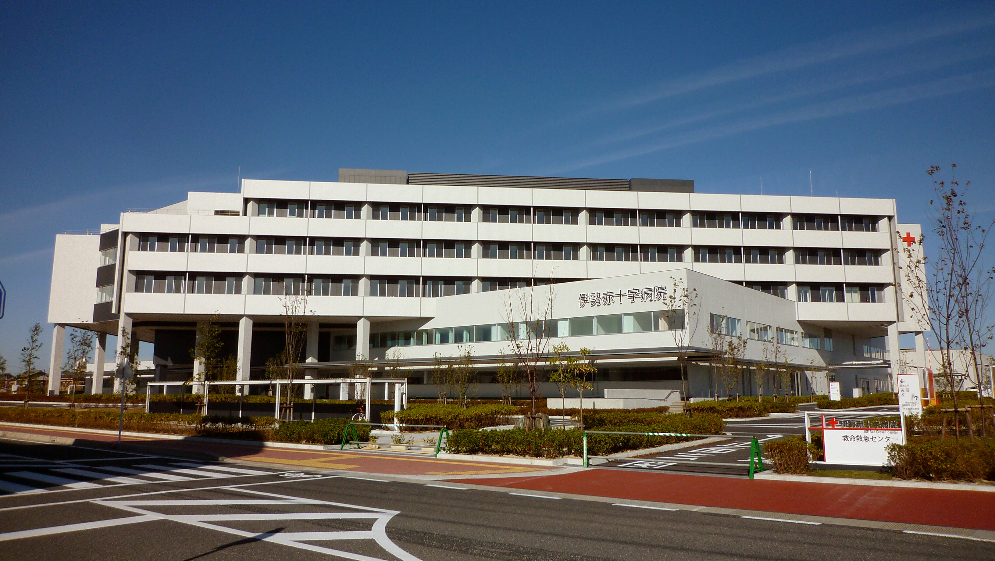 The "Ise Red Cross Hospital" in Ise, Mie Prefecture, Japan.